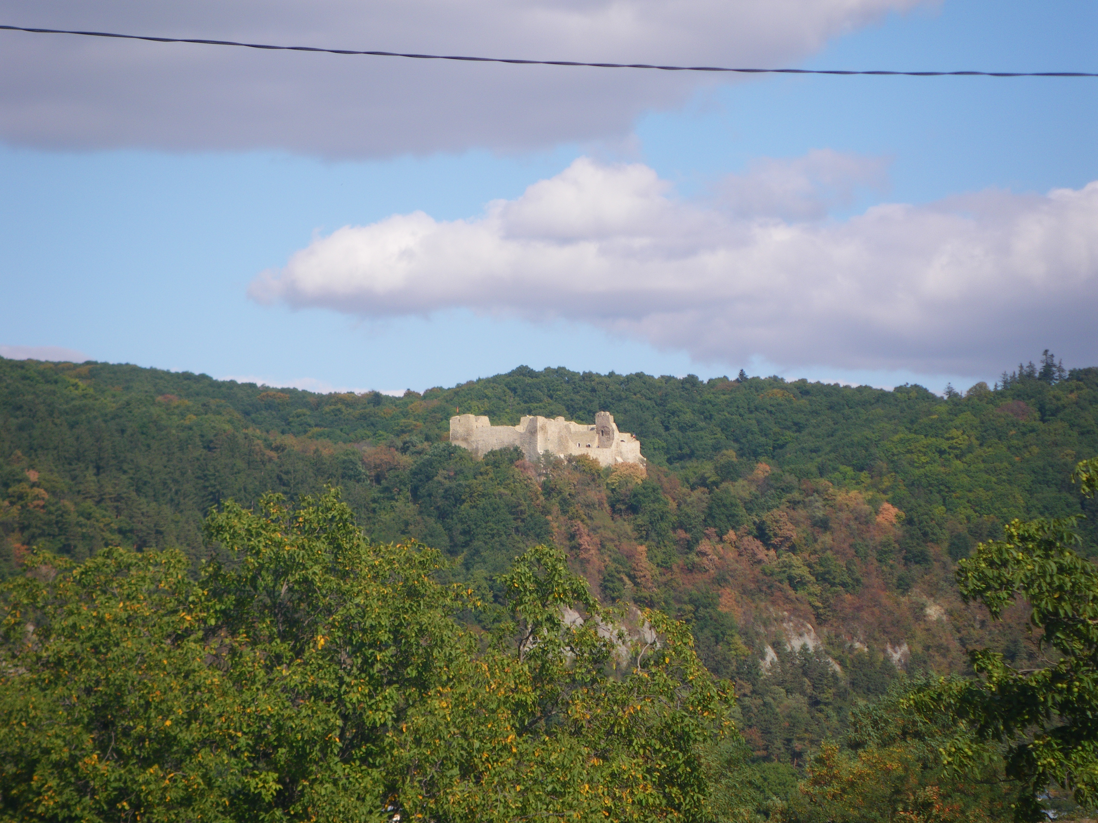 Neamt Citadel